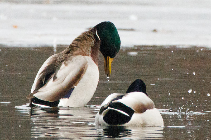 Drake mallard Anas platyrhynchos performing the grunt-whistle